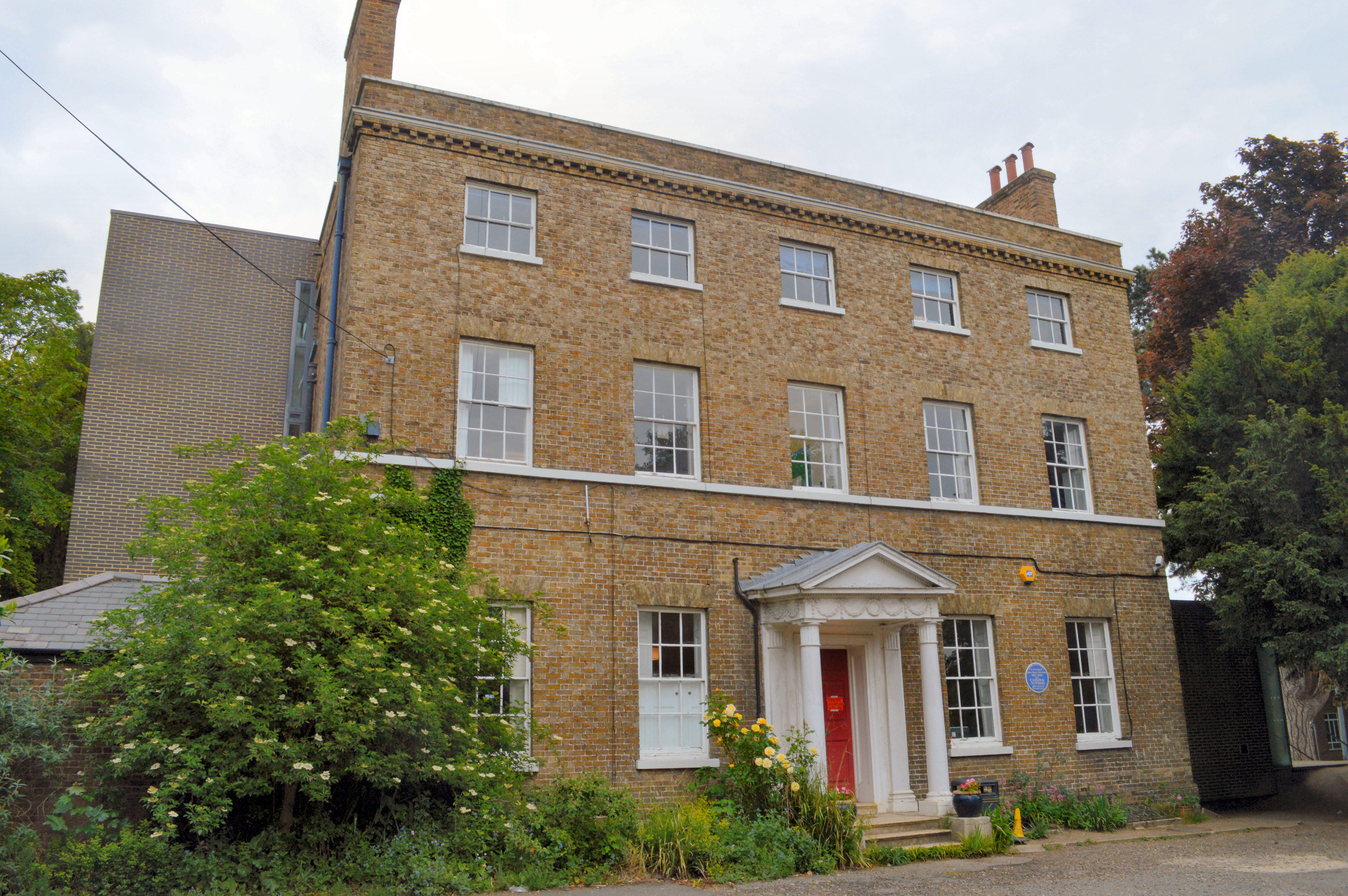 Grey Court School, Newman House (formerly Grey Court)